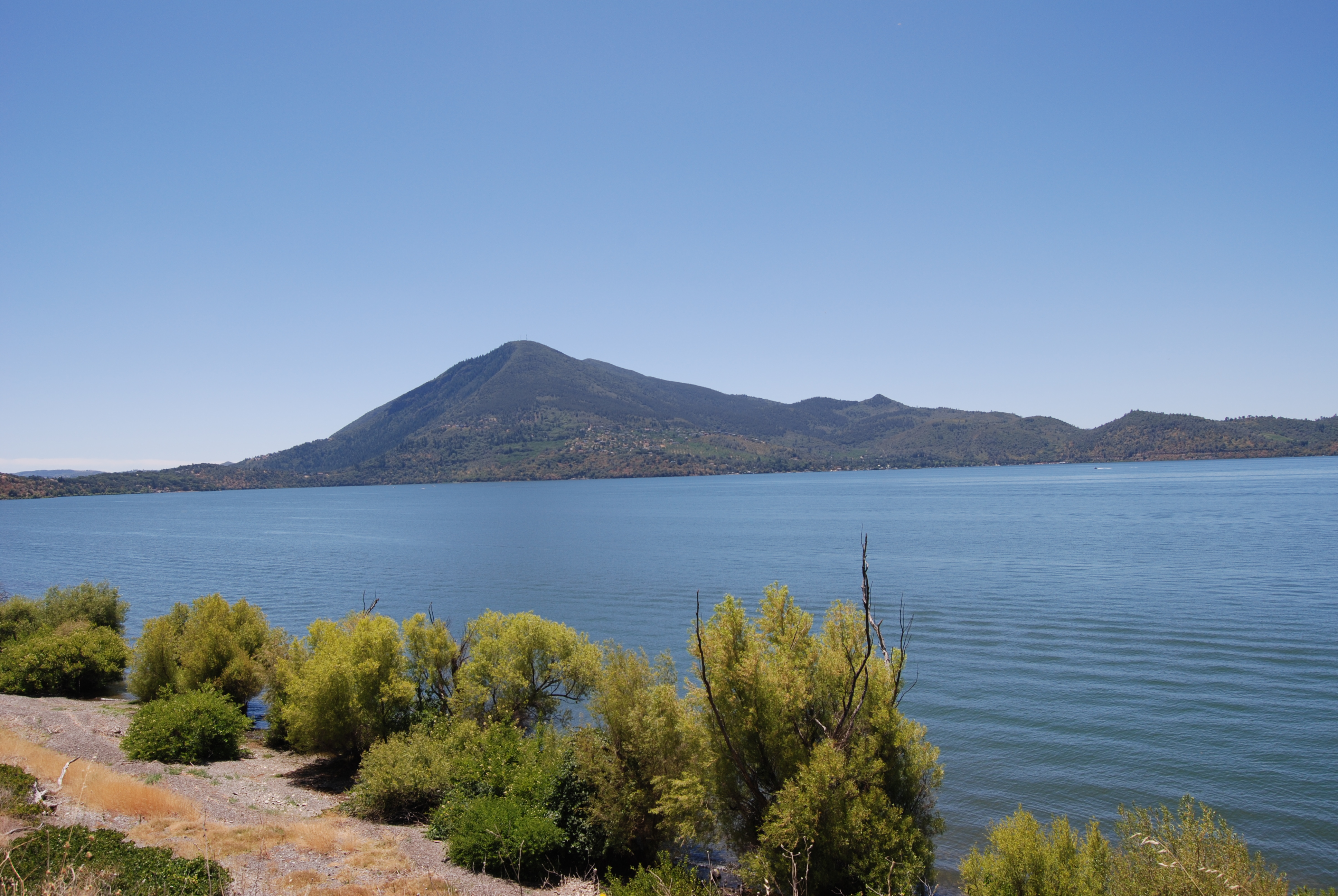 Mount Konocti and Clear Lake, in Lake County, northern California.